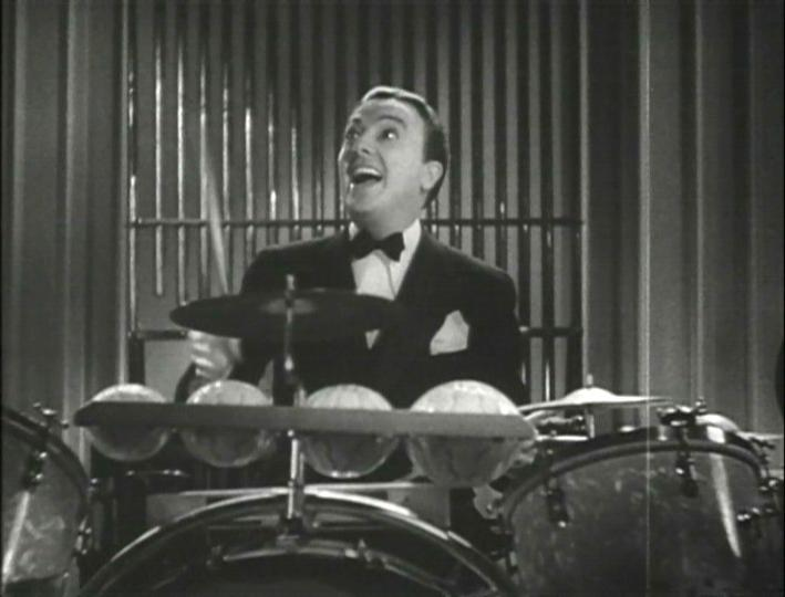 Screenshot of Jack Haley from the trailer for the film Alexander's Ragtime Band